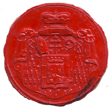 Alois Josef Schrenk, Archbishop of Prague, personal seal